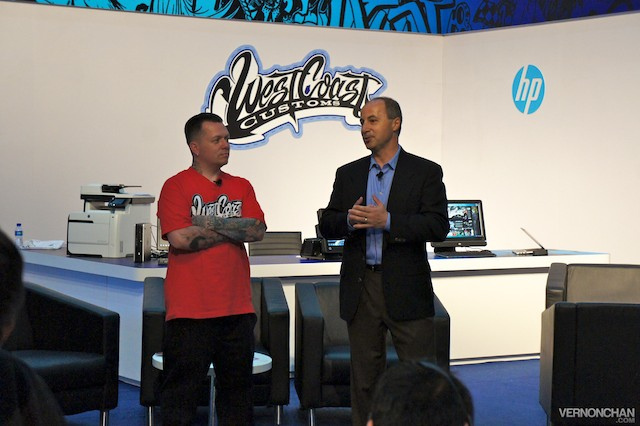 Ryan Friedlinghaus speaks with HP employee at HP GIS 2012 in Shanghai, China.